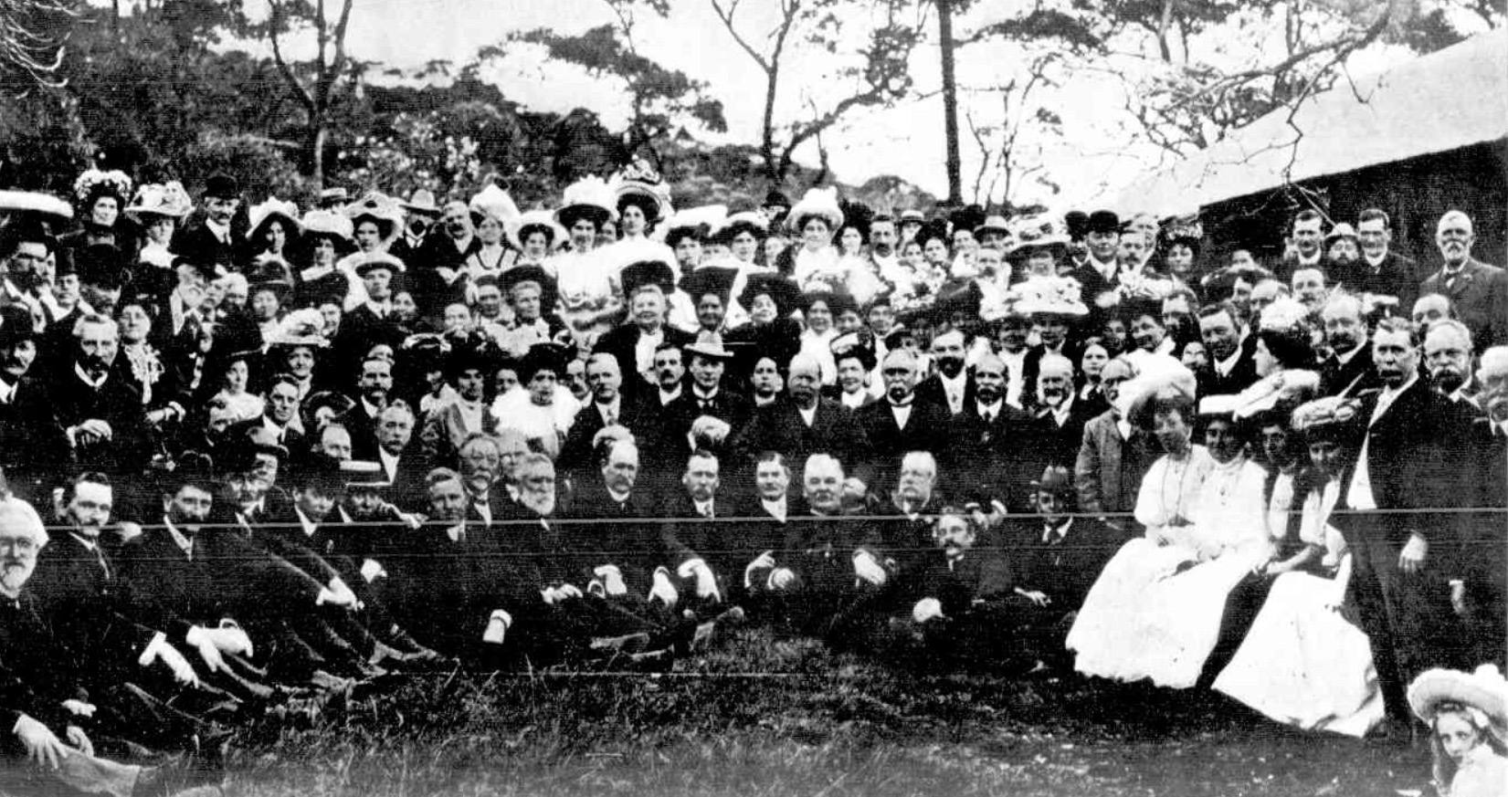 Function at Athol Gardens, Mosman in 1908